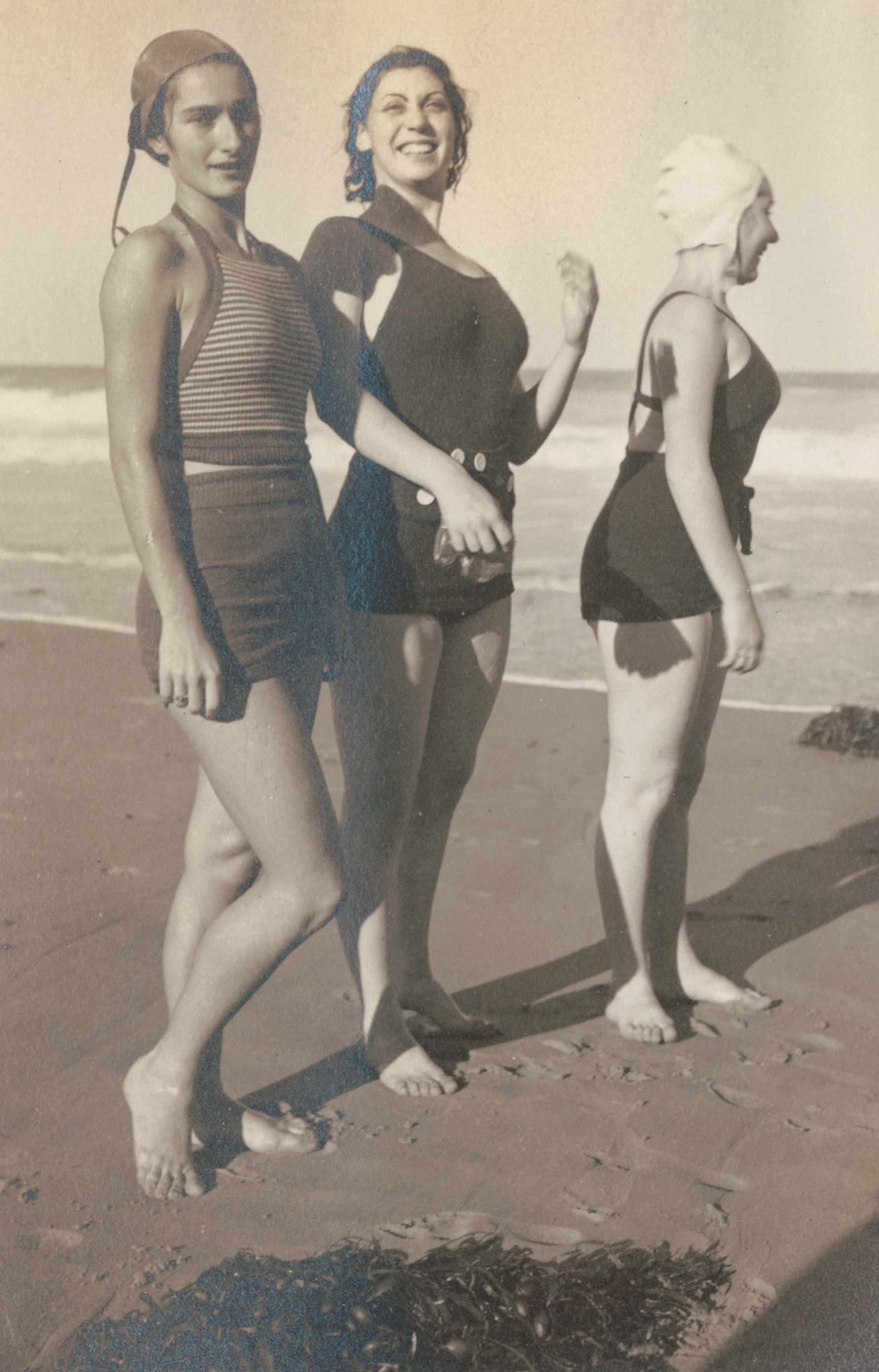 Ballet Rousse de Monte Carlo—Australian Tour 1936–37. Dancers Tamara Tchinarova (left) and Nina Youchkevitch (centre) standing with an unknown woman at Bungan Beach, NSW.